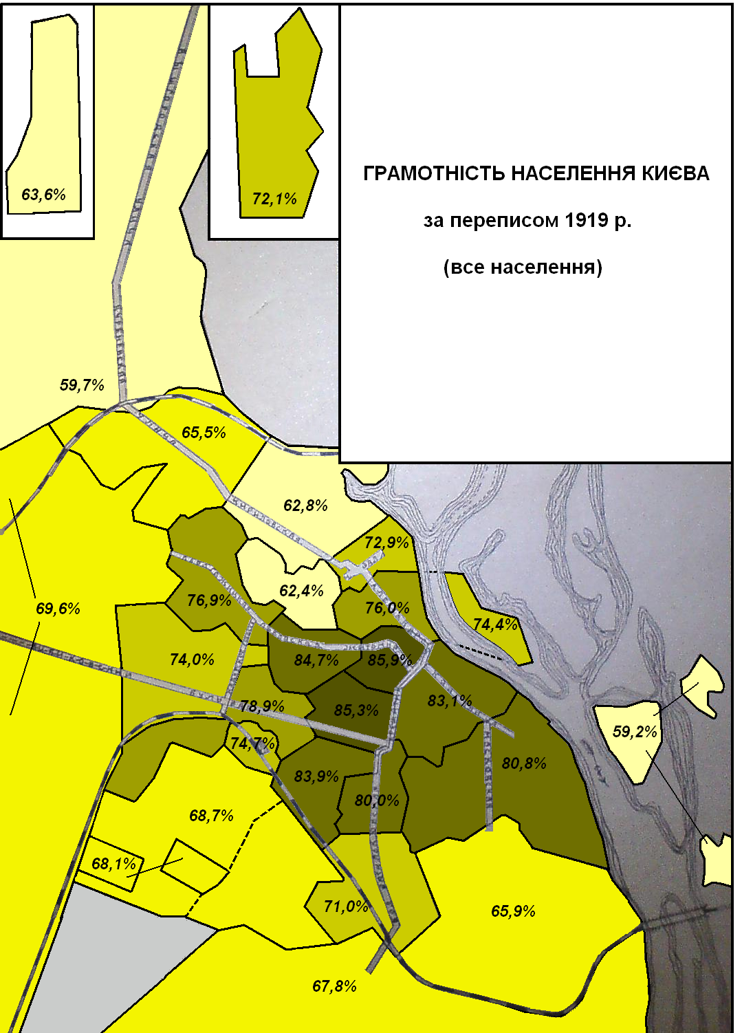 Literacy rate in districts of Kyiv according to 1919 census (all population)